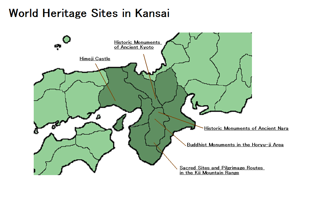 location of the world heritage sites in Kansai(2008)